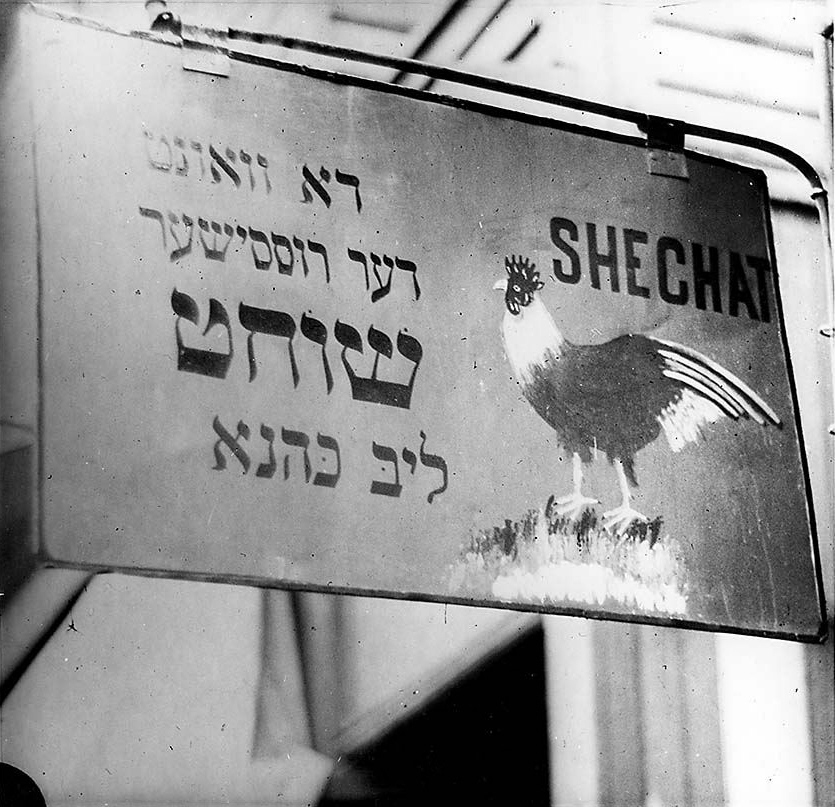 A butcher shop sign in "the Ward", the original centre of Toronto's Jewish community. The sign, in Yiddish, identifies the butcher as a "Shechat", or ritual slaughterer. The sign also indicates that the Shechat is a Russian Jew.